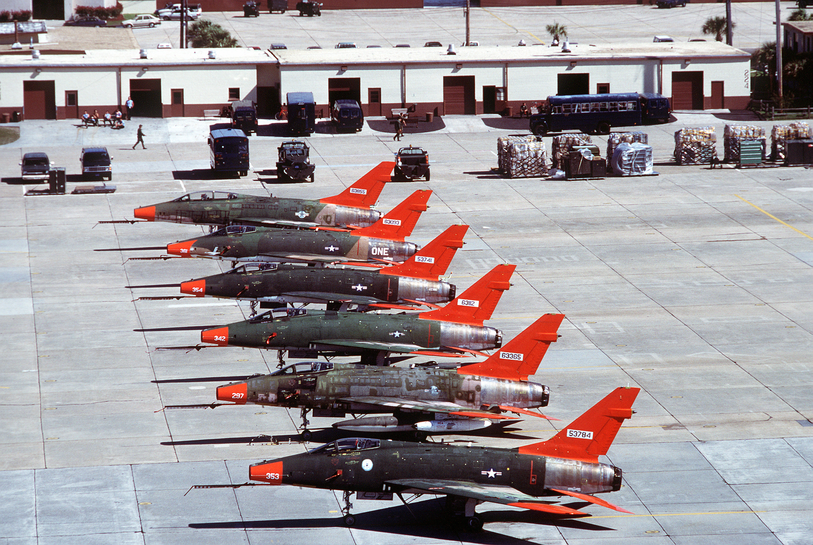 A row of U.S. Air Force North American QF-100 Super Sabre target drones on the flight line Tyndall Air Force Base, Florida (USA), on 25 April 1990. The first five aircraft are single-seat QF-100Ds (s/n 55-3784, 56-3365, 56-3112, 55-3741, and 56-3093) and a double-seat QF-100F (s/n 56-3865).